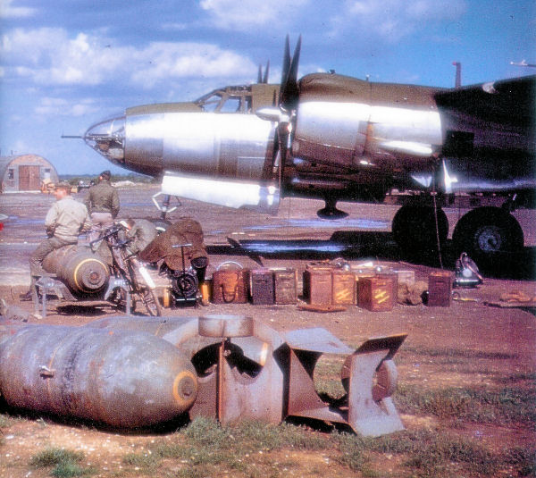 B-26 of the 344th Bomb Group, Stanstead Airfield England - World War II.